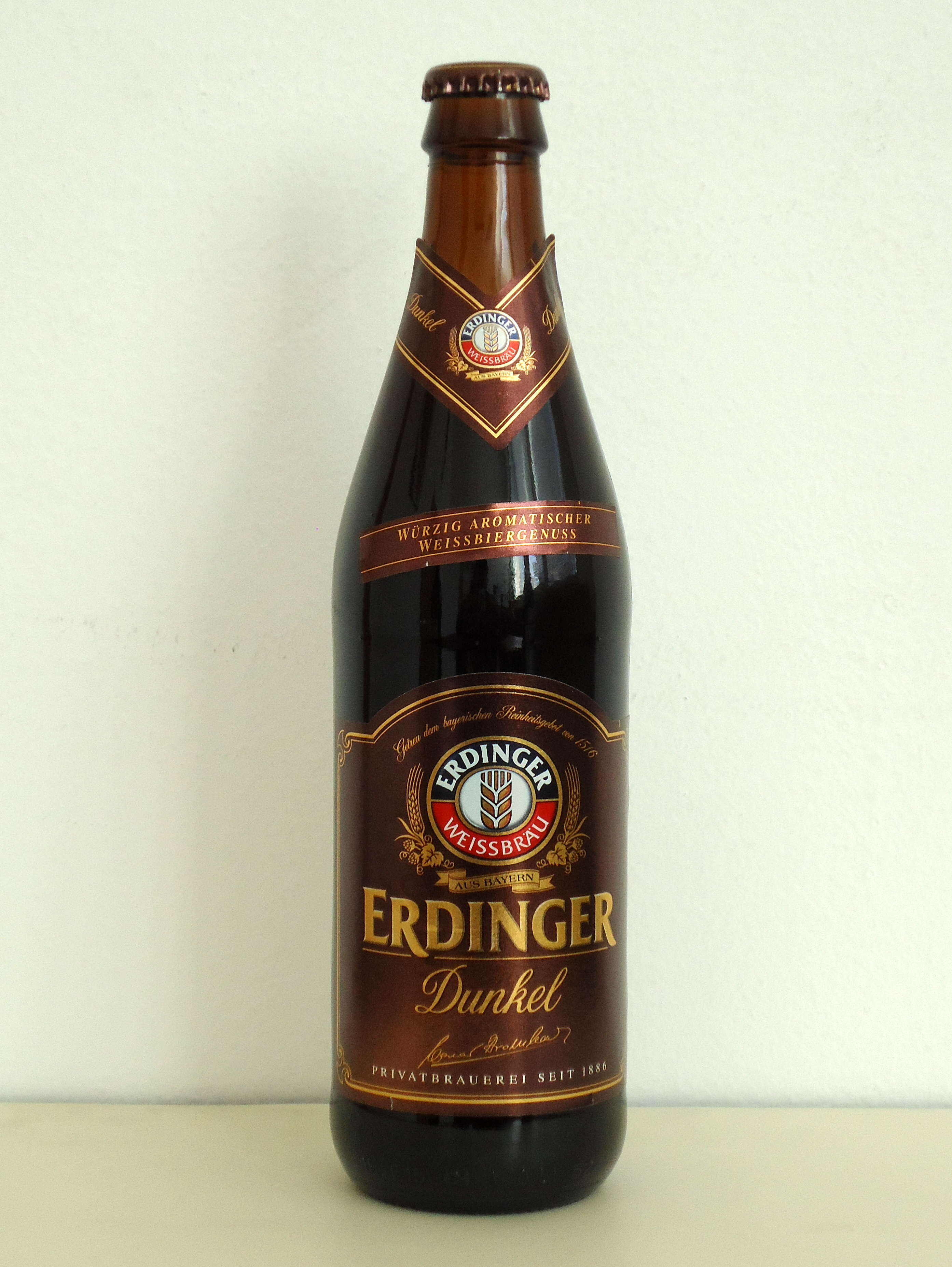 Erdinger Dunkel beer